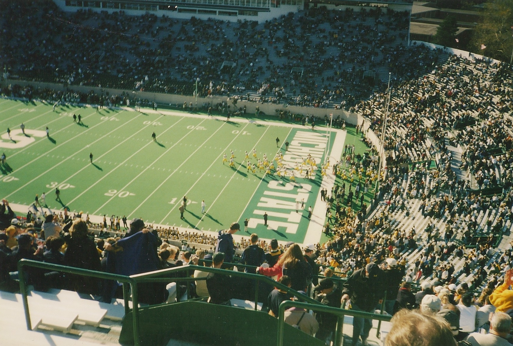 Michigan taking the field before the Michigan Wolverines vs. Michigan State Spartans football game at Spartan Stadium in East Lansing, Michigan (United States).